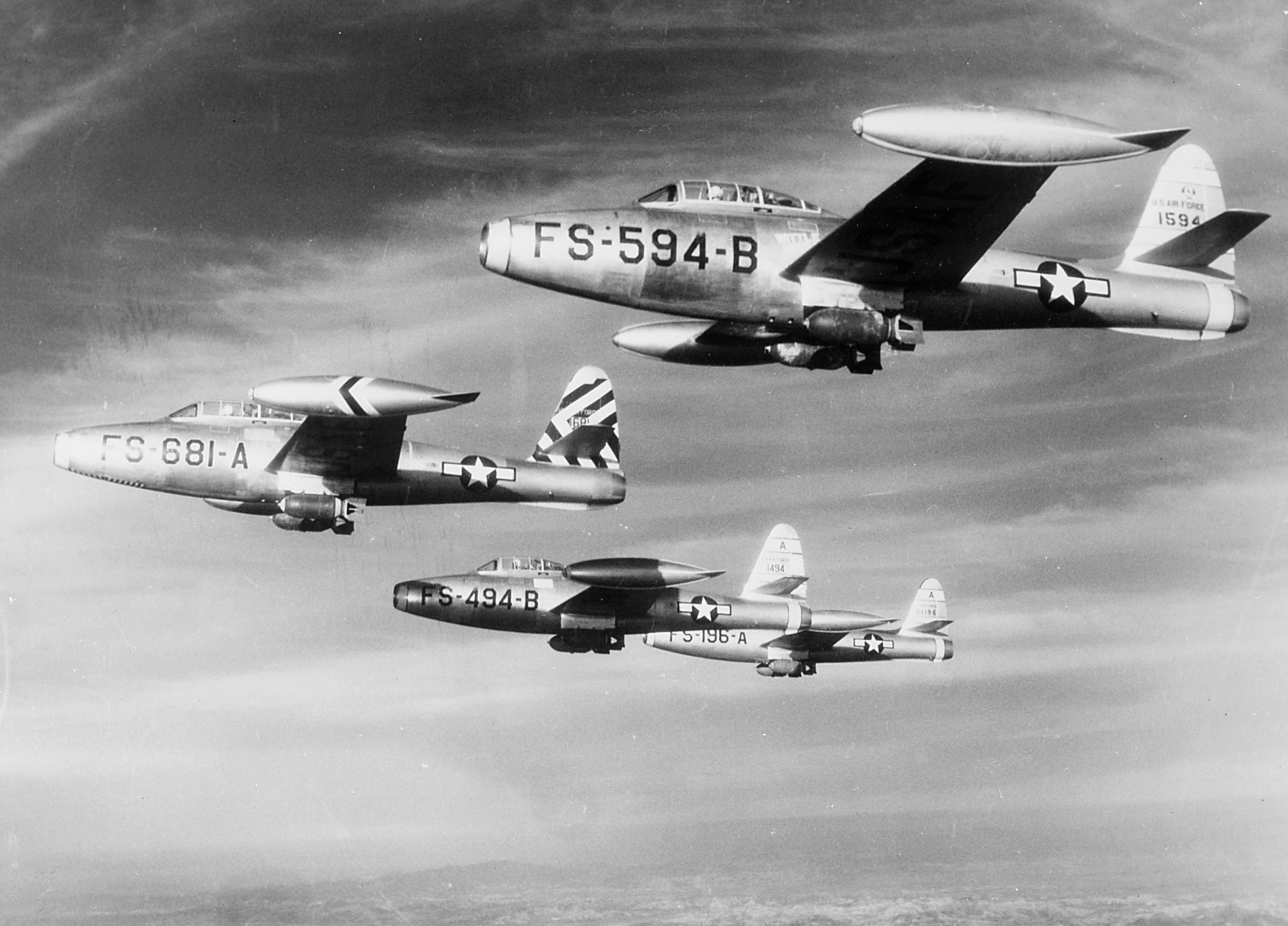 U.S. Air Force Republic F-84E Thunderjet fighters (s/n 50-1196, 51-494, 51-594, 51-681) from the 474th Fighter-Bomber Wing in Korea, 1952. The F-84E 51-494 from the 430th Fighter-Bomber Squadron was shot down by flak on 9 October 1952. The pilot was killed. Original caption: "Fifth Air Force, Korea--Winging their way through the skies over North Korea, these heavily loaded U.S. Air Force F-84 "Thunderjets" of the 474th Fighter Bomber Wing, head for a Communist military target somewhere north of the 38th parallel. These speedy warcraft almost daily are hitting enemy supply and troop concentrations and attacking enemy frontline positions in support of UN ground operations.: ca. 10/1952"